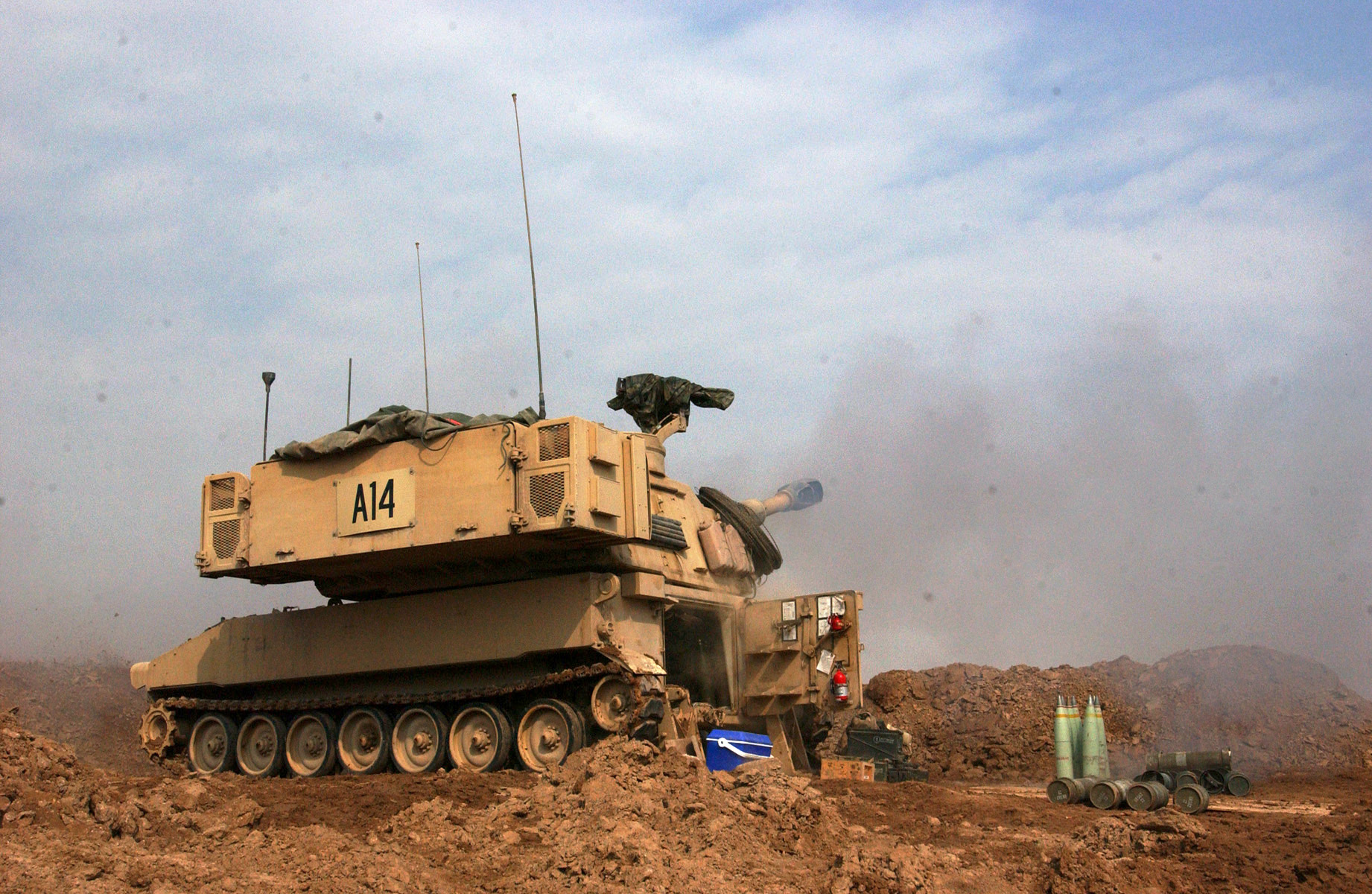 A U.S.ARMY M-109A6 howitzer from Alpha Battery, 3rd Battalion, 82nd Field Artillery, 2nd Brigade Combat Team, 1st Cavalry Division, sends a round down range during combat operations in Fallujah, Iraq.